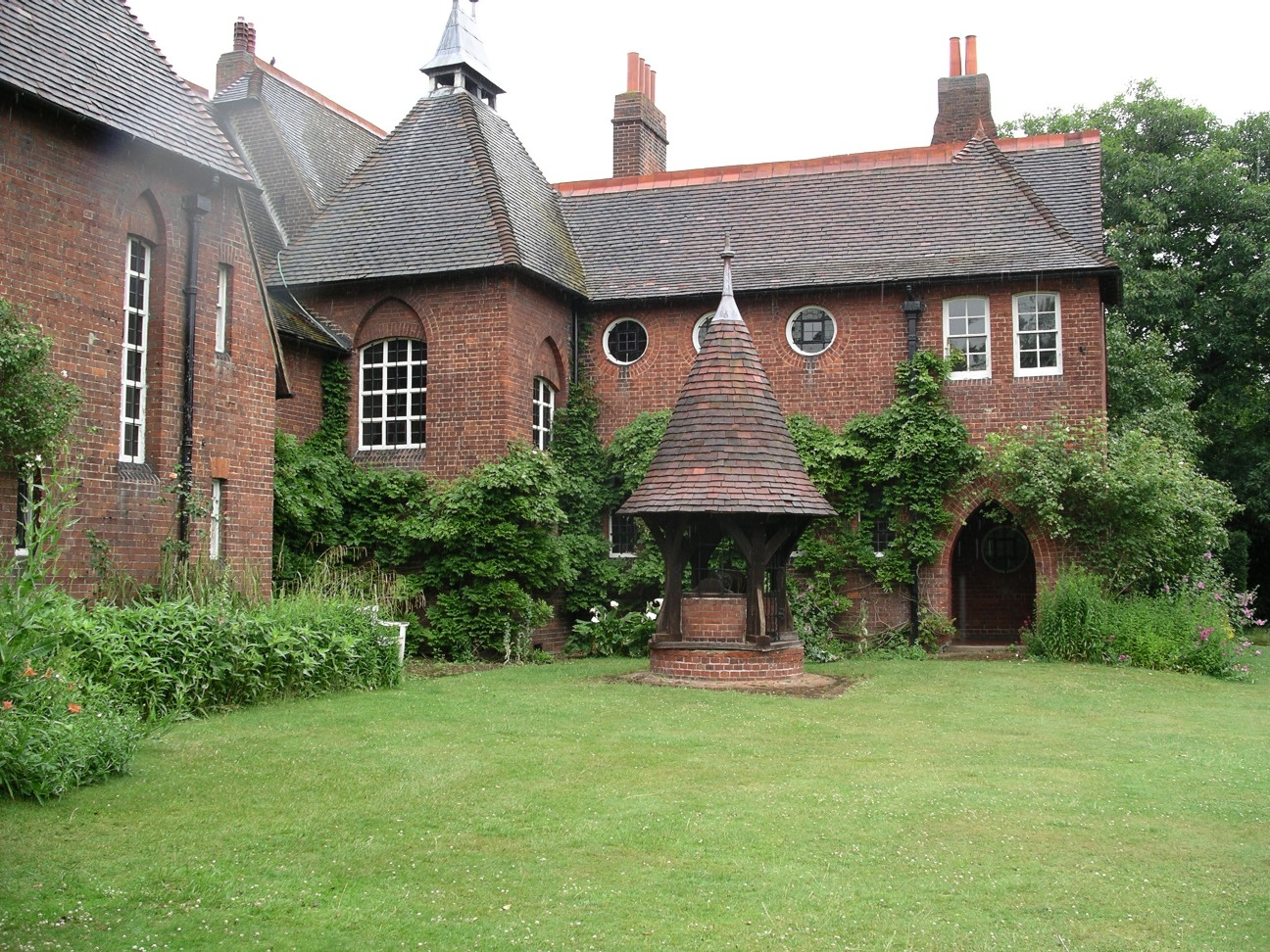 The Red House in Bexleyheath, Kent. One of the homes of William Morris and Jane Morris, designed by Morris and the Philip Webb